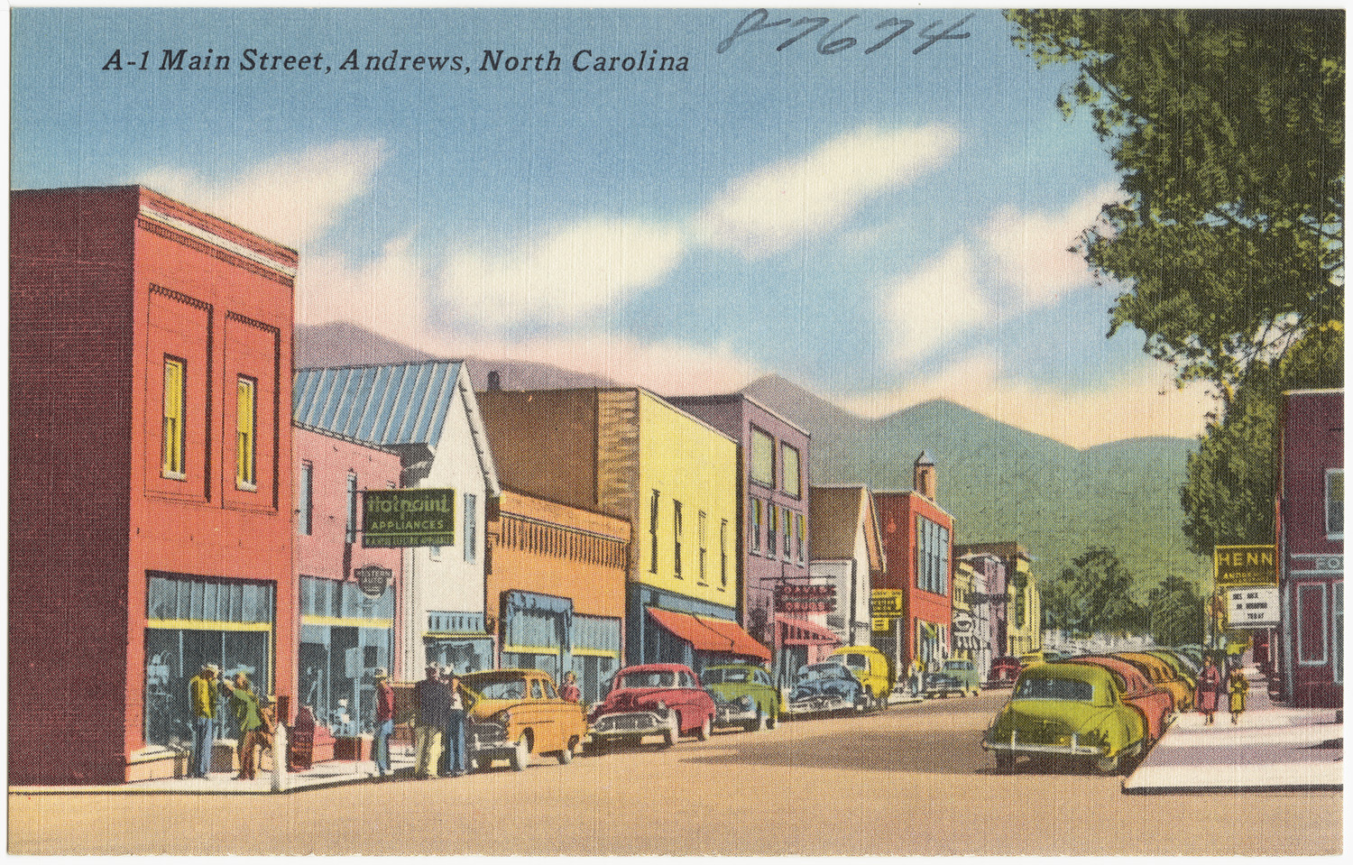 File name: 06_10_015740 Title: A-1. Main Street, Andrews, North Carolina Created/Published: Pub. by The Asheville Post Card Co., Asheville, N. C. Date issued: 1930 - 1945 (approximate) Physical description: 1 print (postcard) : linen texture, color ; 3 1/2 x 5 1/2 in. Genre: Postcards Subjects: Cities & towns Notes: Collection: The Tichnor Brothers Collection Location: Boston Public Library, Print Department Rights: No known restrictions